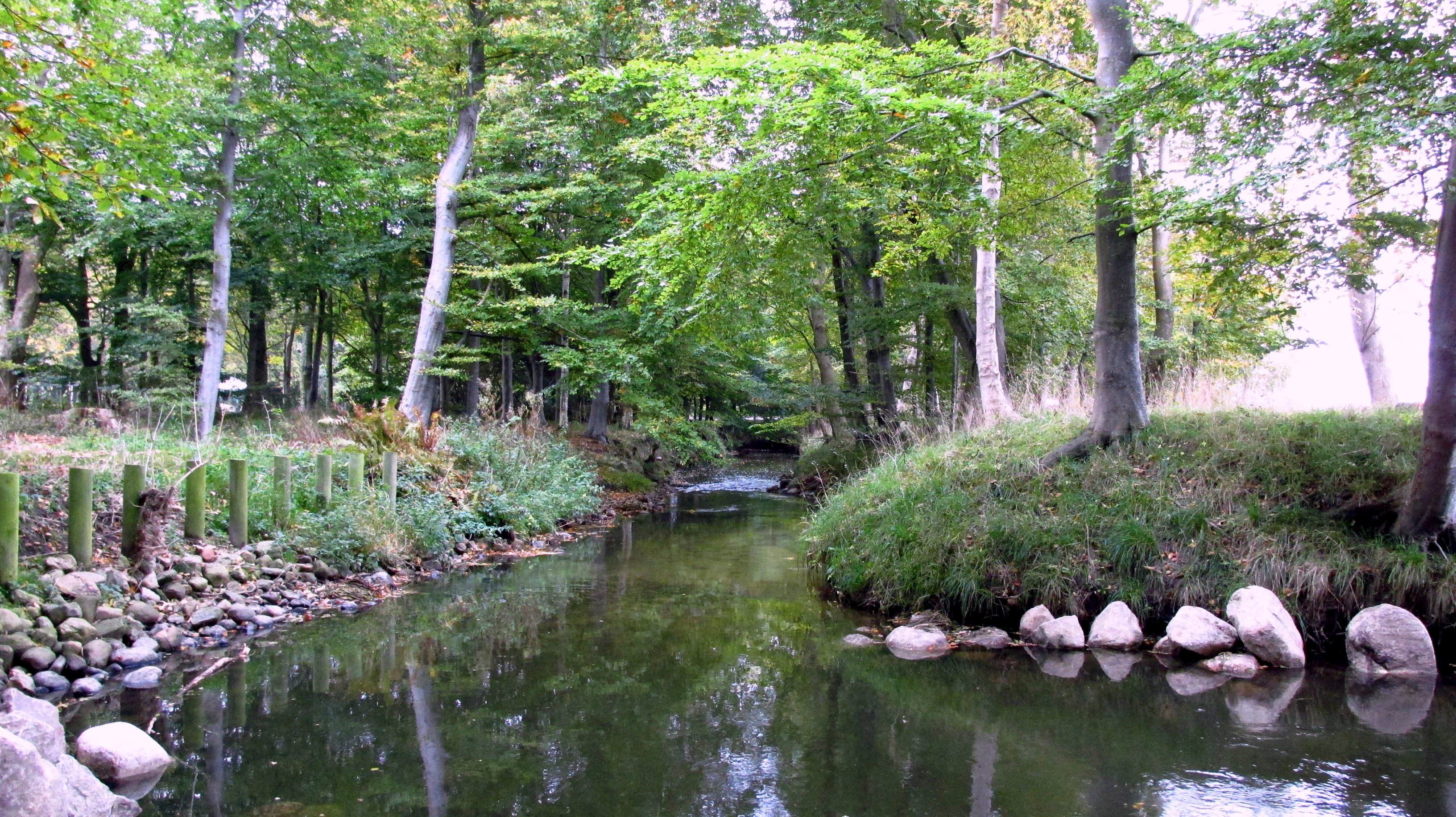 Hæstrup Møllebæk, a stream in northern Denmark